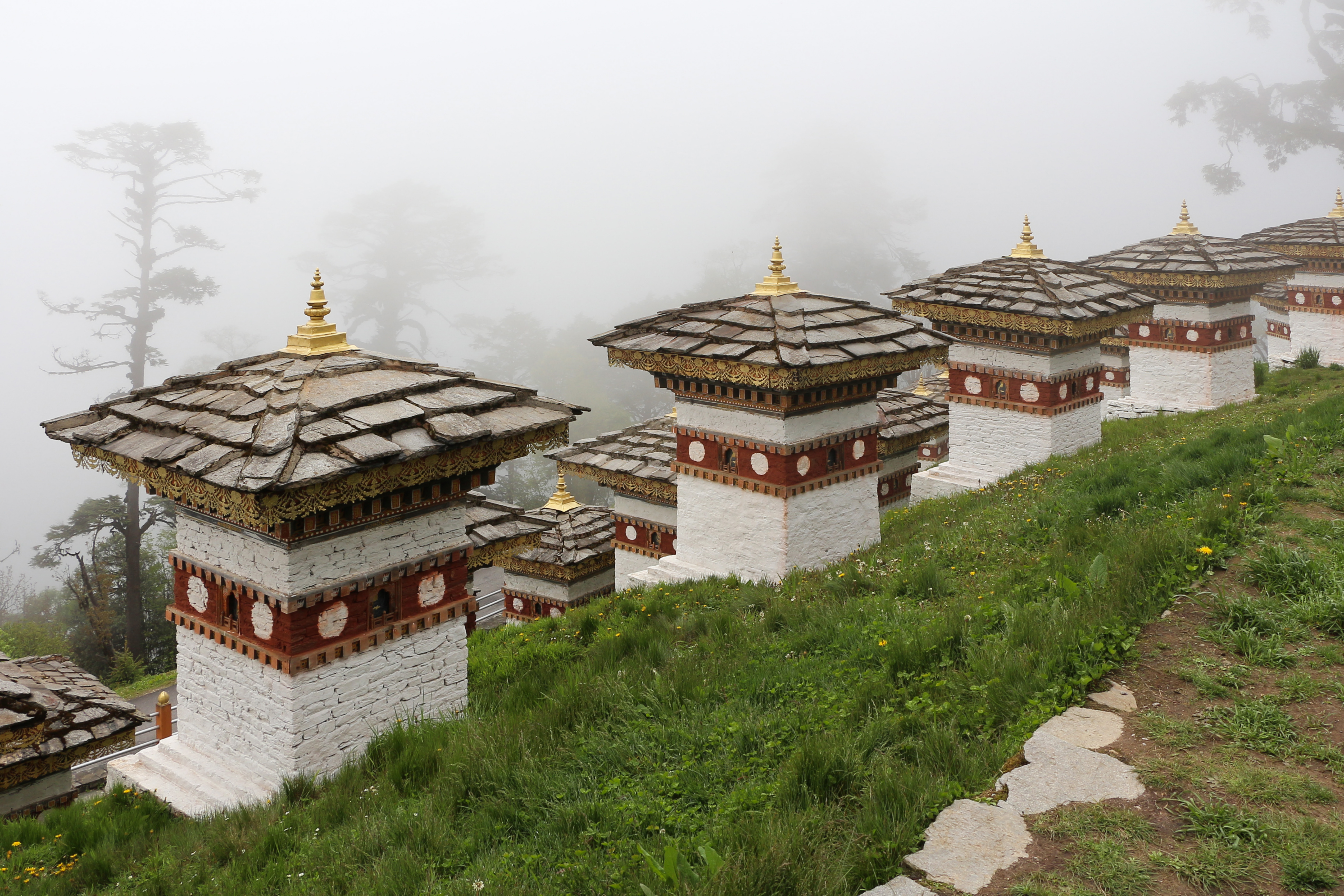 Druk Wangyal Chortens, Dochula Pass, Bhutan